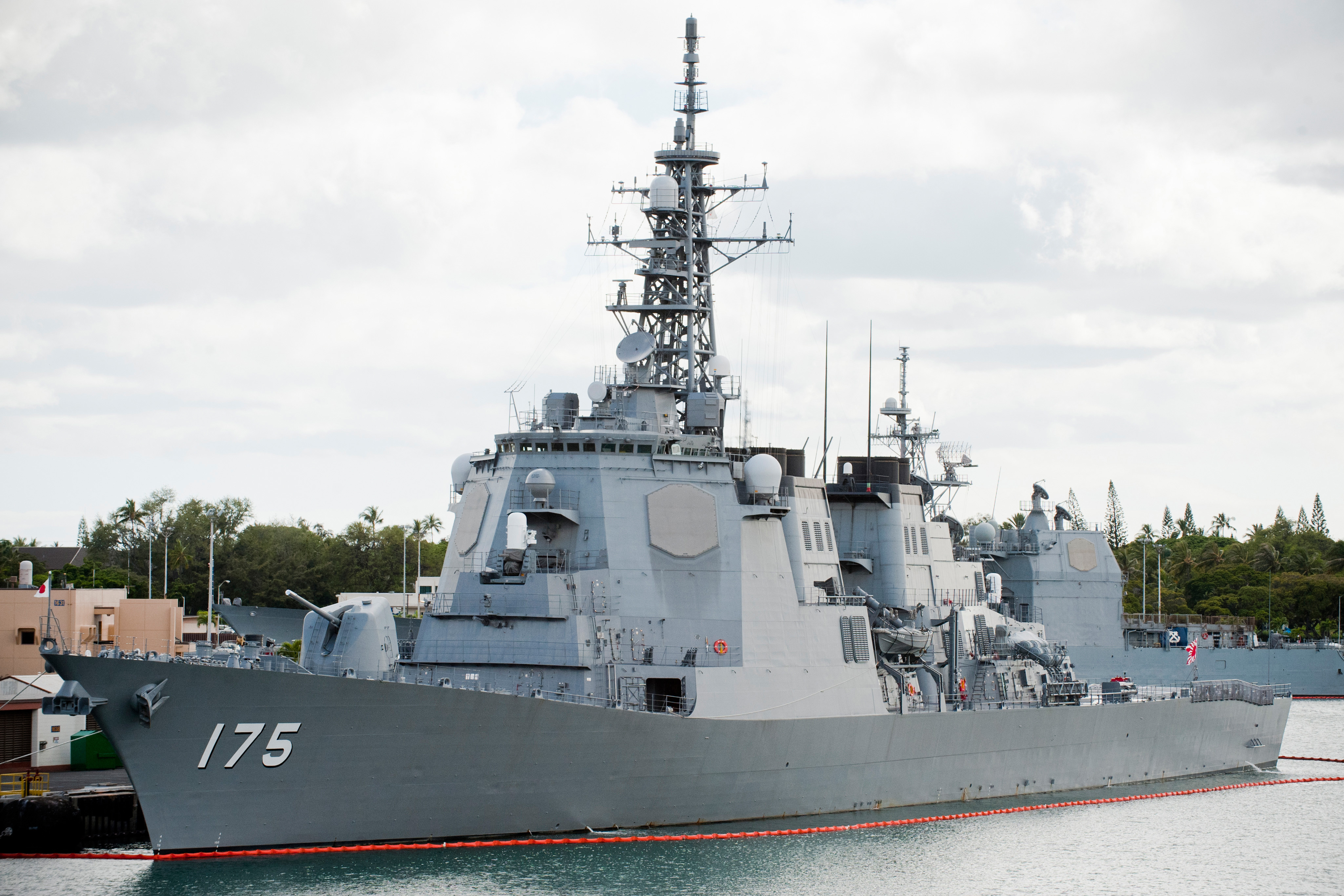 JOINT BASE PEARL HARBOR-HICKAM (June 27, 2012) - The Japan Maritime Self-Defense destroyer JS Myōkō (DDG-175) is moored at Joint Base Pearl Harbor Hickam to participate in the Rim of the Pacific (RIMPAC) 2012 exercise. (New Zealand Defense Force photo by LAC Amanda McErlich/Released)